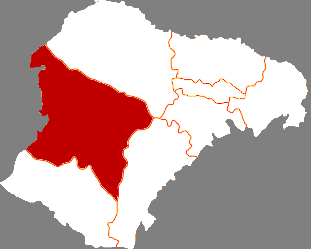 Locator map of Otog Banner in Ordos City, Inner Mongolia, China